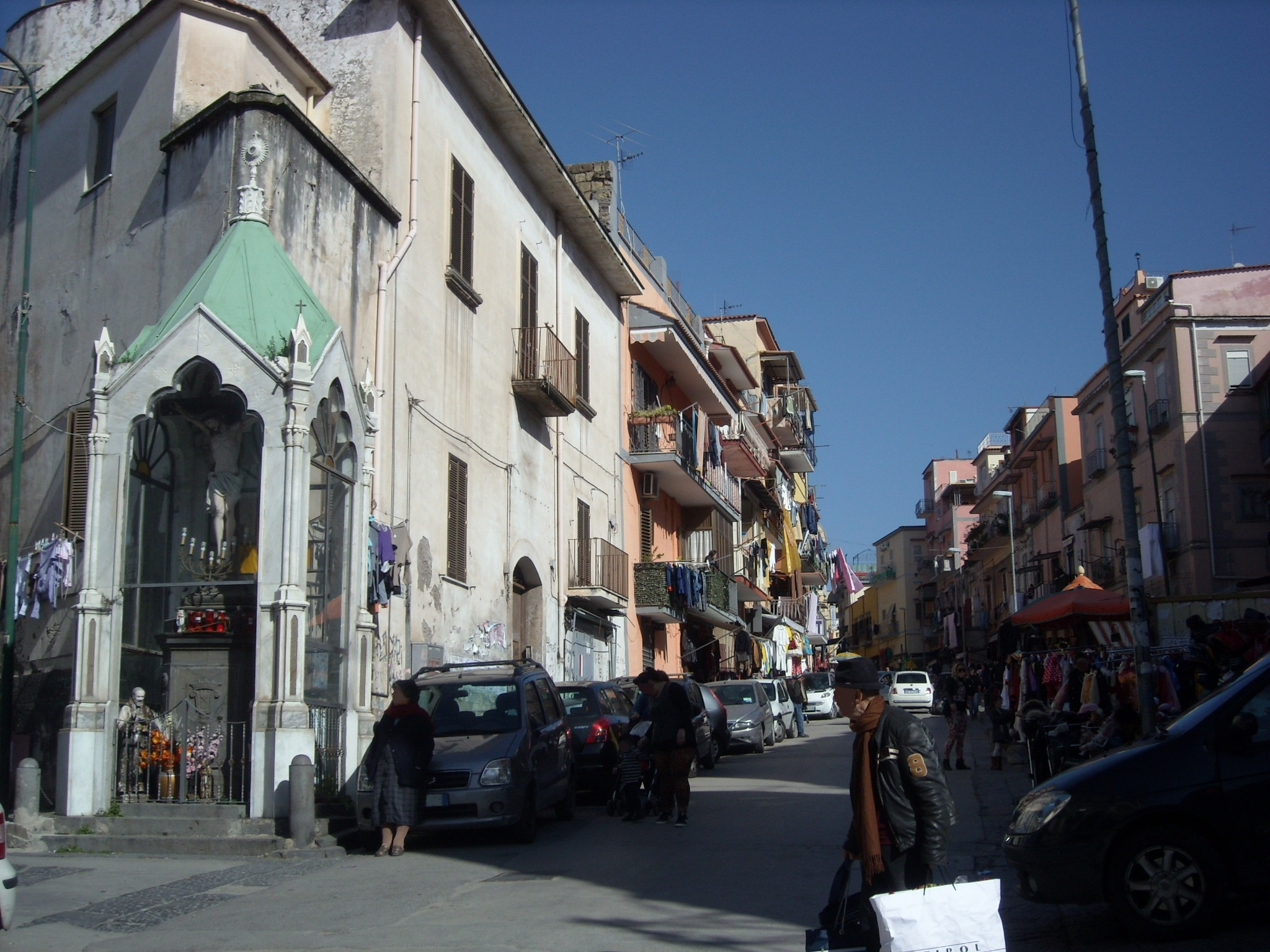 The Crucifix of 1799 in Via Pugliano